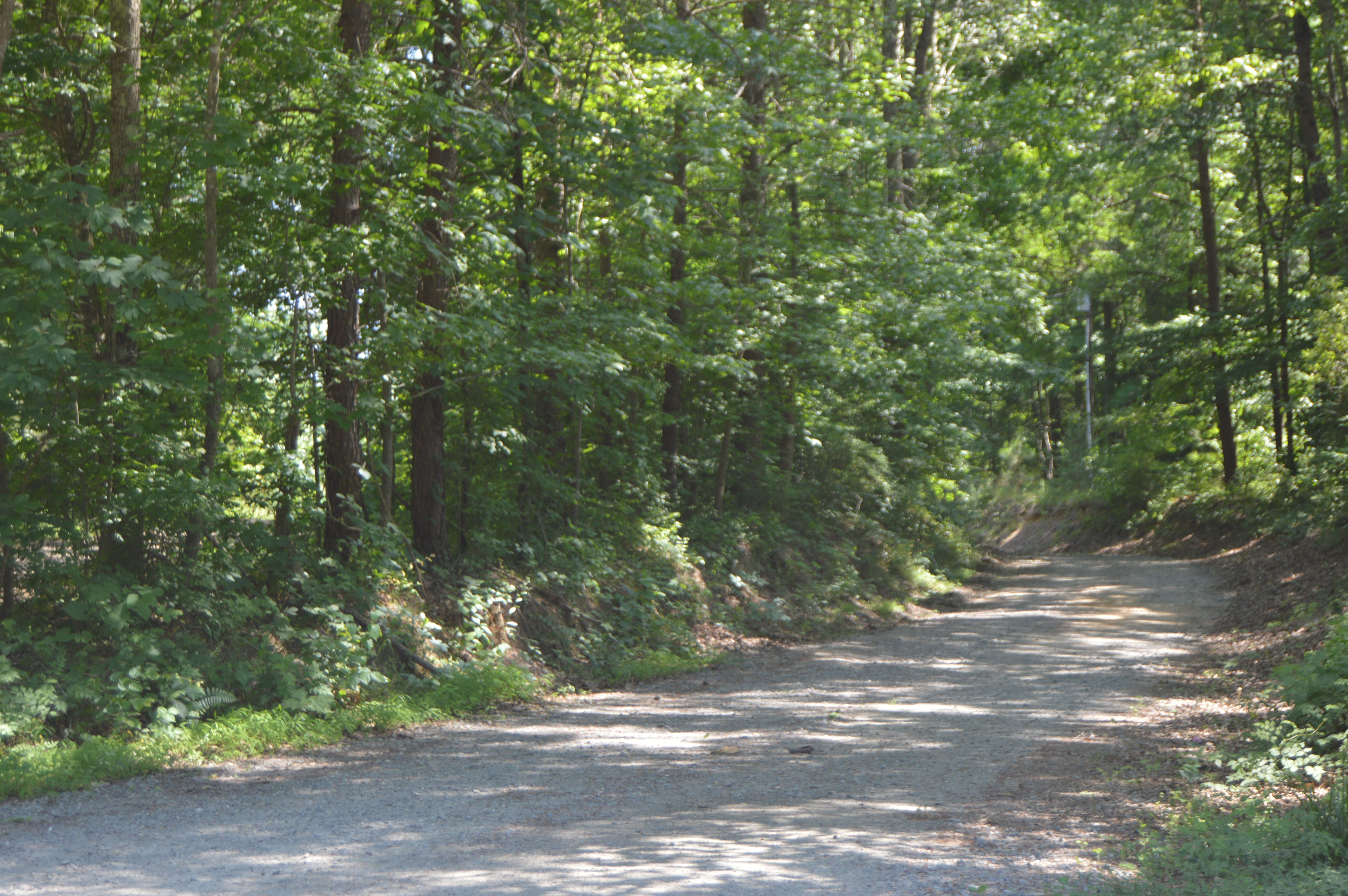 Entrance to the Bewdley estate, located at the end of Bewdley Lane south of St. Stephens Church in King and Queen County, Virginia, United States. The estate is listed on the National Register of Historic Places.